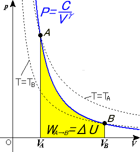 p-V graph of adiabatic process